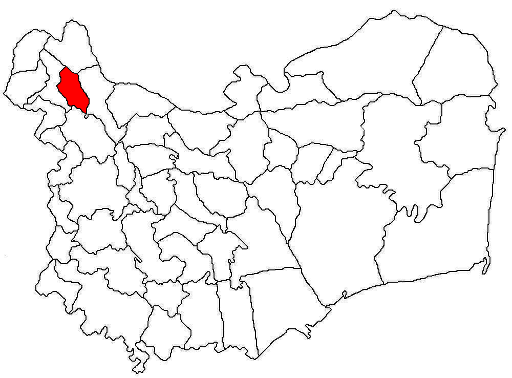 Locator map of the commune Vacareni in Tulcea County